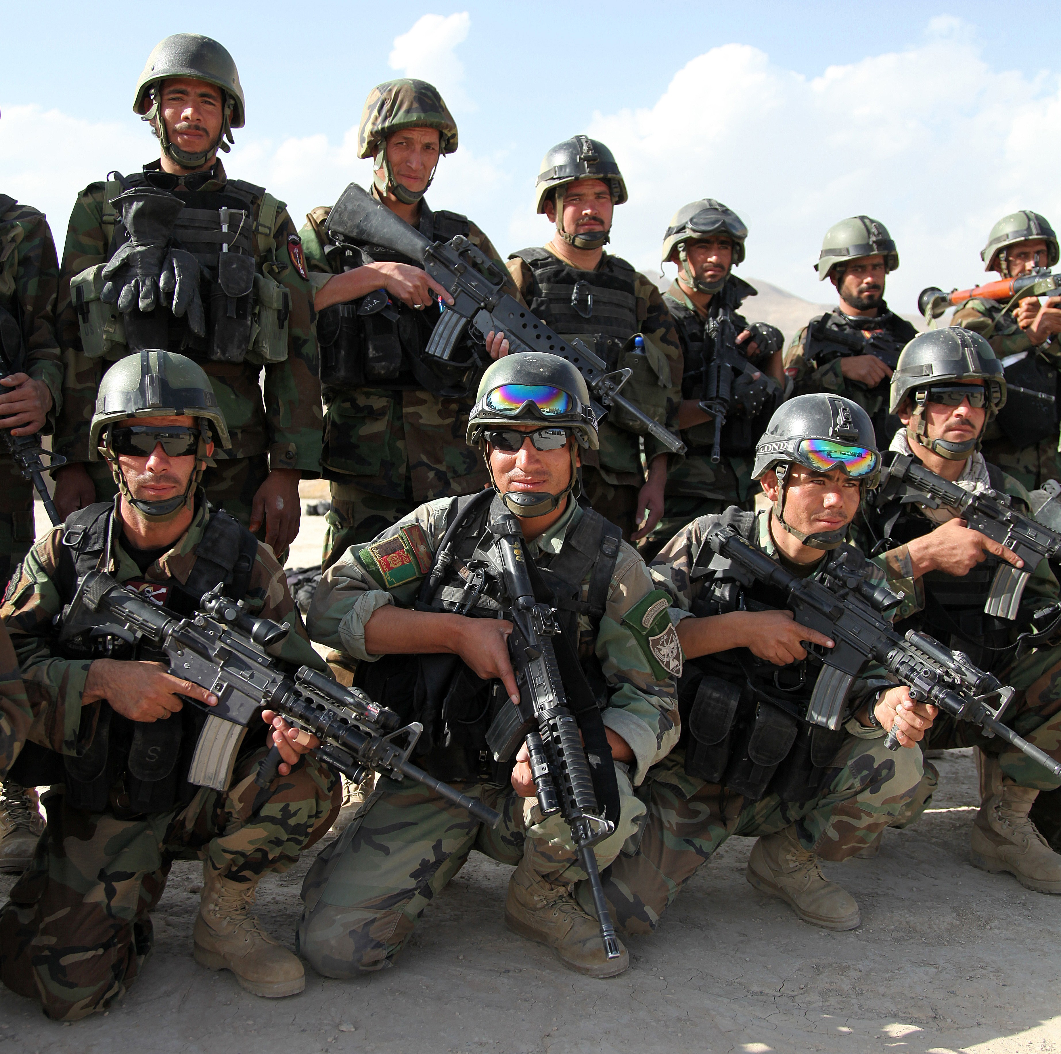 VIRIN: 090928-A-6365W-017 (CROPPED by Officer) Afghan Commandos prepare for an air assault mission from Forward Operation Base Airborne, Afghanistan, Sept. 28, 2009. (U.S. Army photo by Sgt. Teddy Wade/ Released)